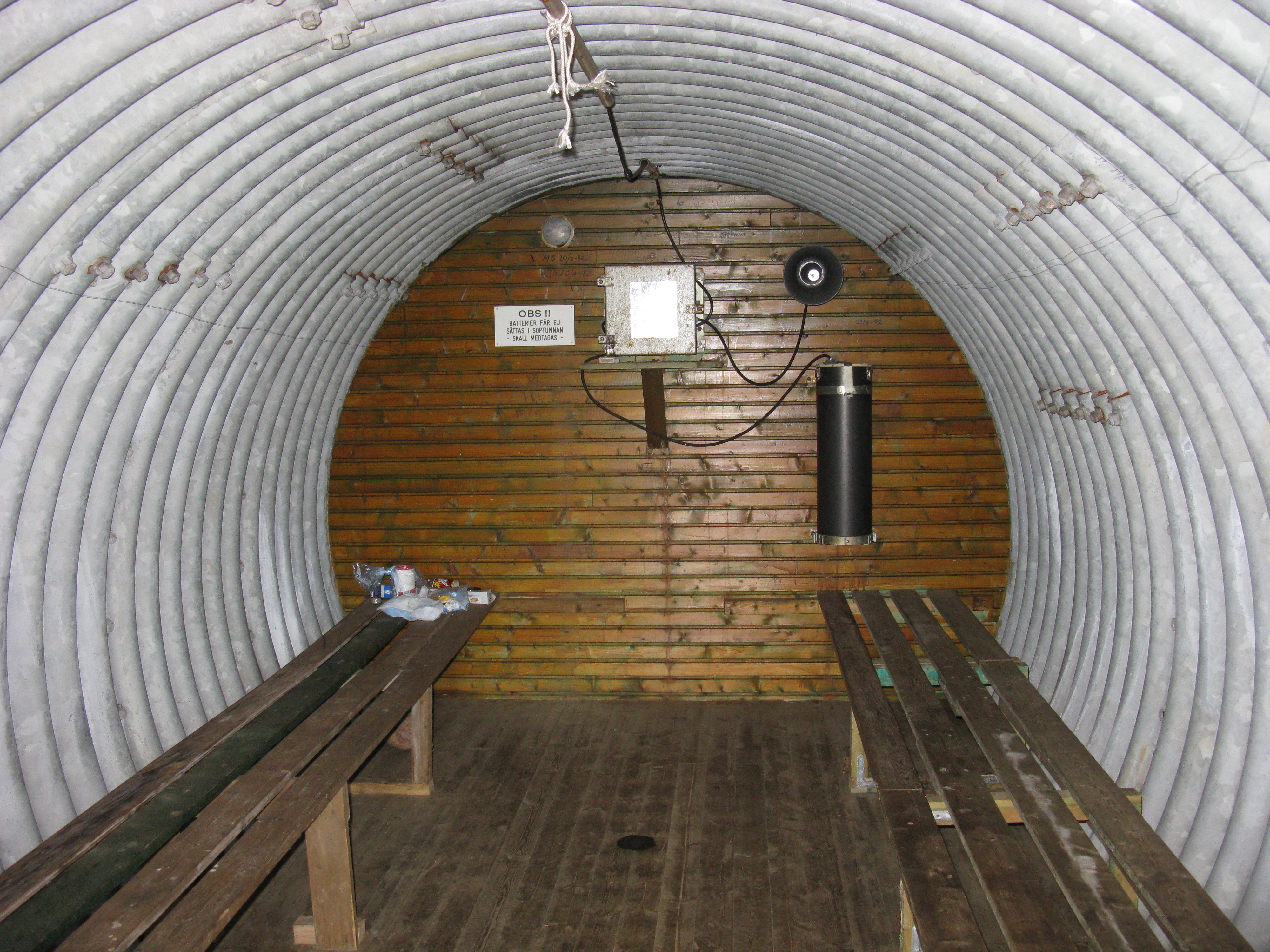 Esrange rocket range launches sounding rockets that land in a vast, uninhabited area north of the range. Throughout this area are small shelters that one can use when a rocket campaign is planned. This is the interior of one such shelter at Vassejávri.